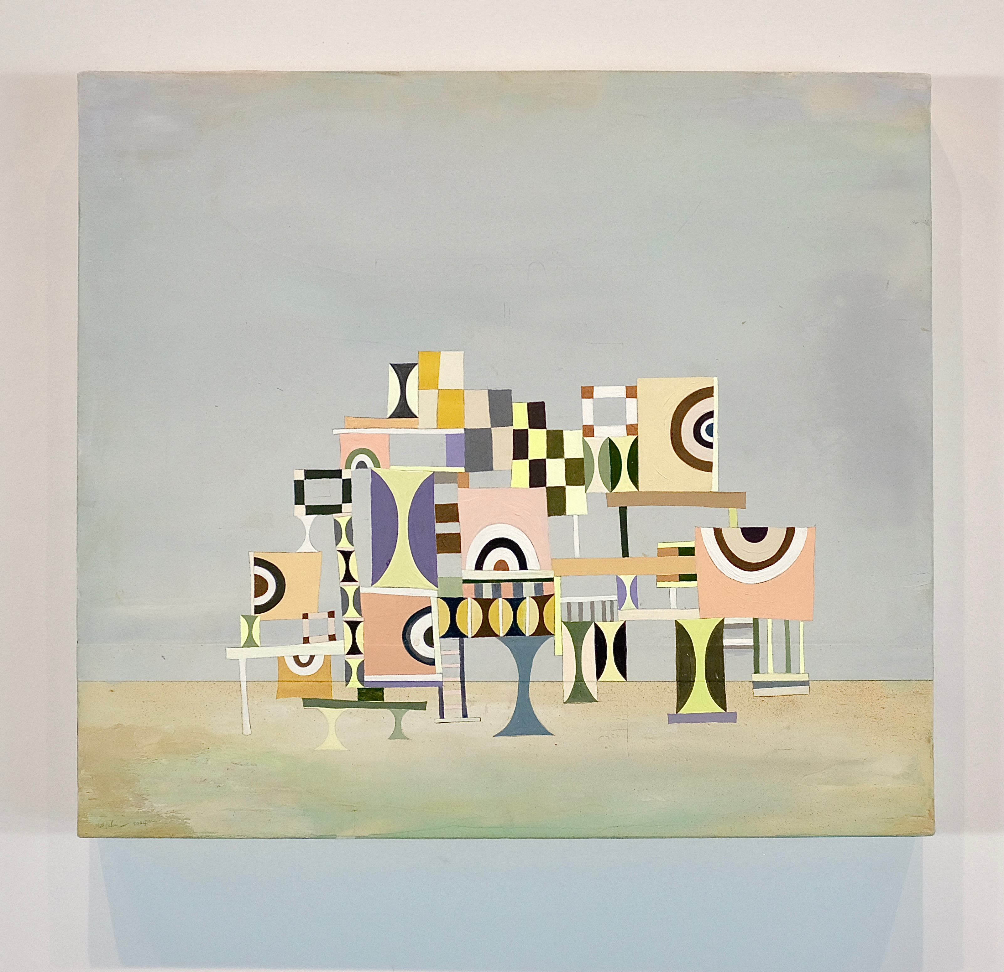 Matt Baumgardner, first of three canvases, 2004